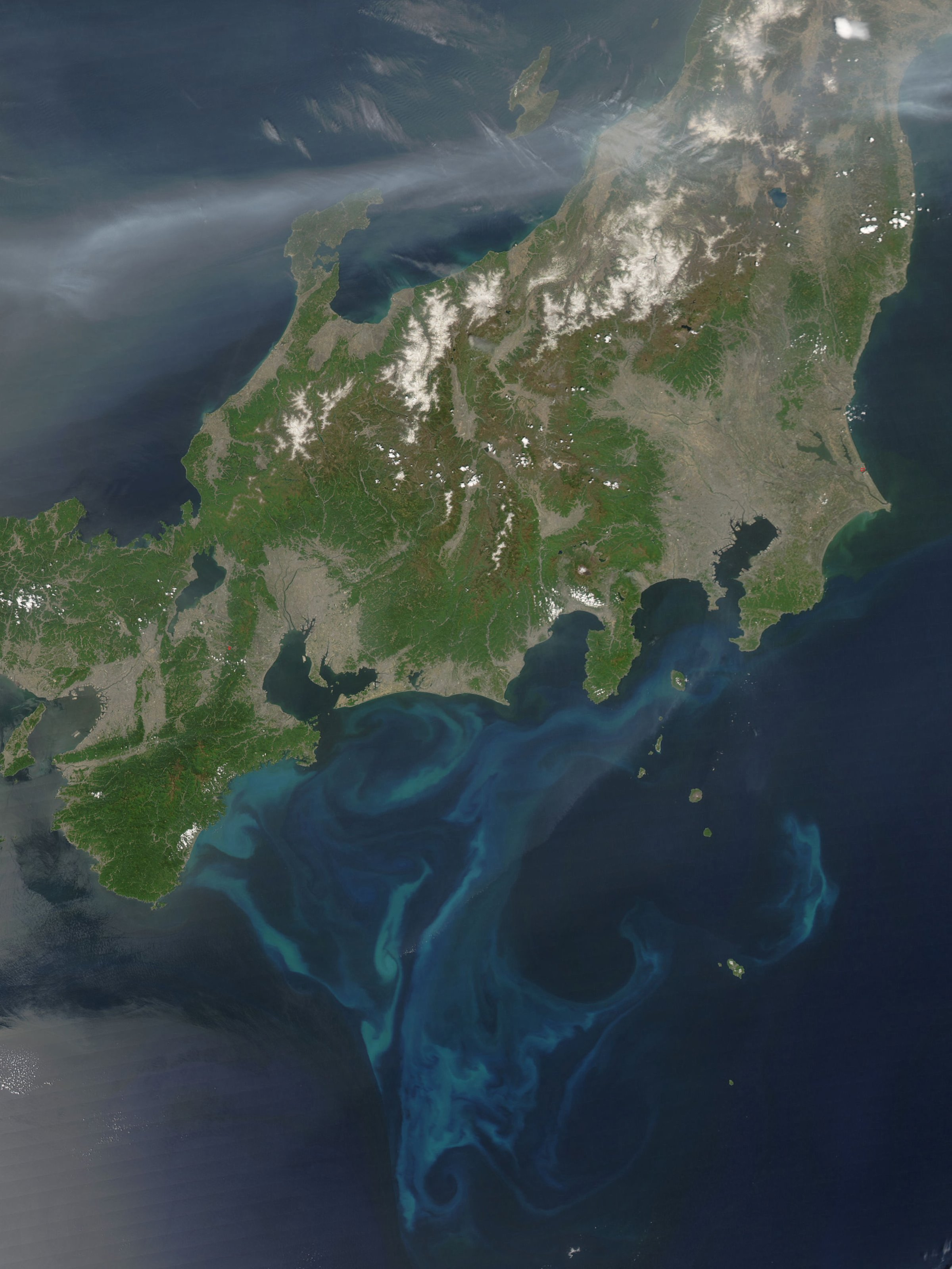 Phytoplankton bloom in the Western Pacific Ocean, off the coast of Japan captured by the Moderate Resolution Imaging Spectroradiometer (MODIS) on NASA’s Aqua satellite.